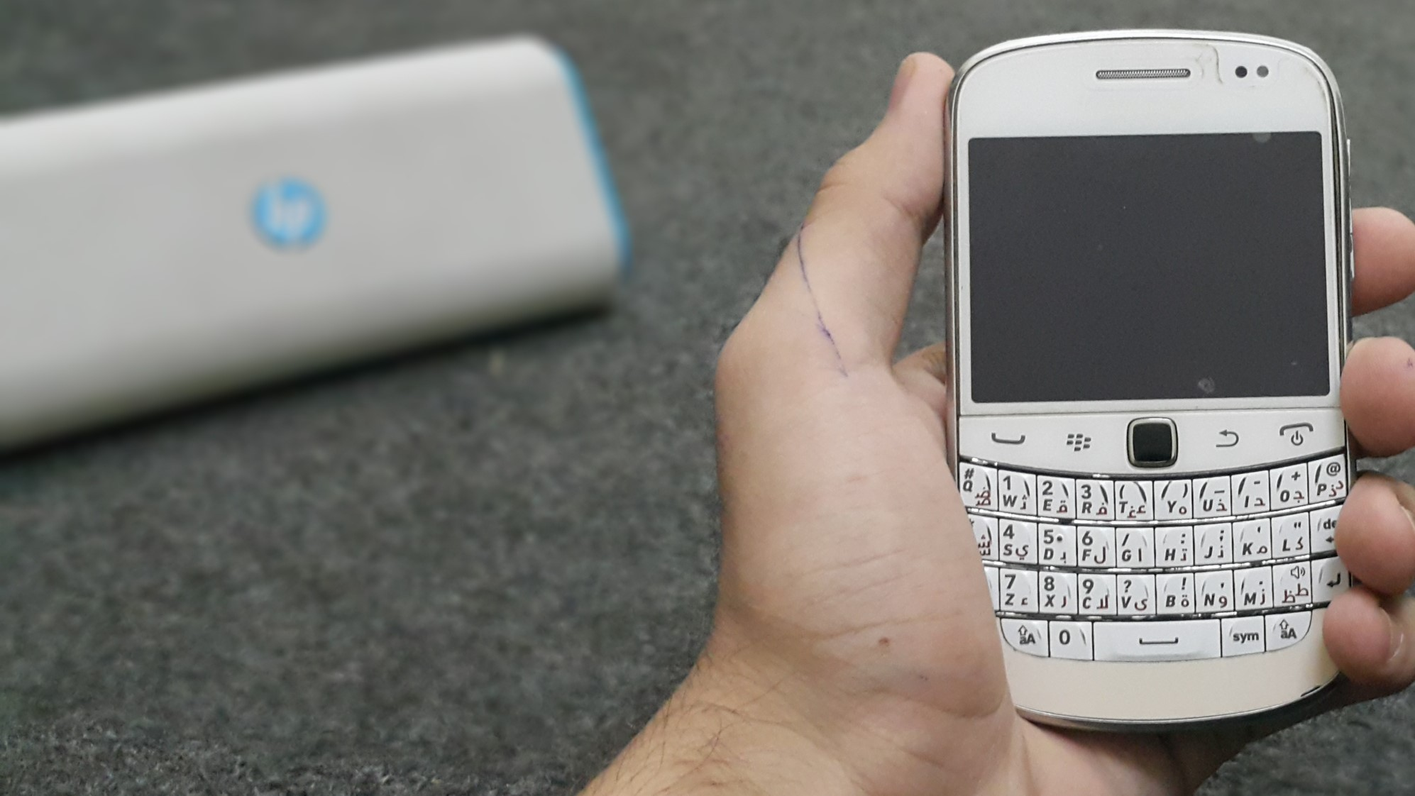 A blackberry bold color white in hand. Behind is a faded HP Roar Speaker.